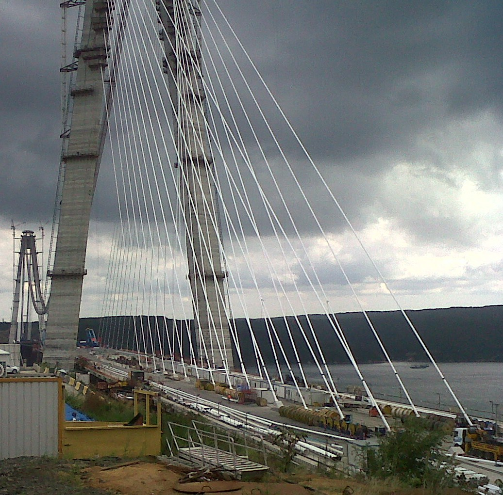 Yavuz Sultan Selim Bridge under construction, Sep 2015